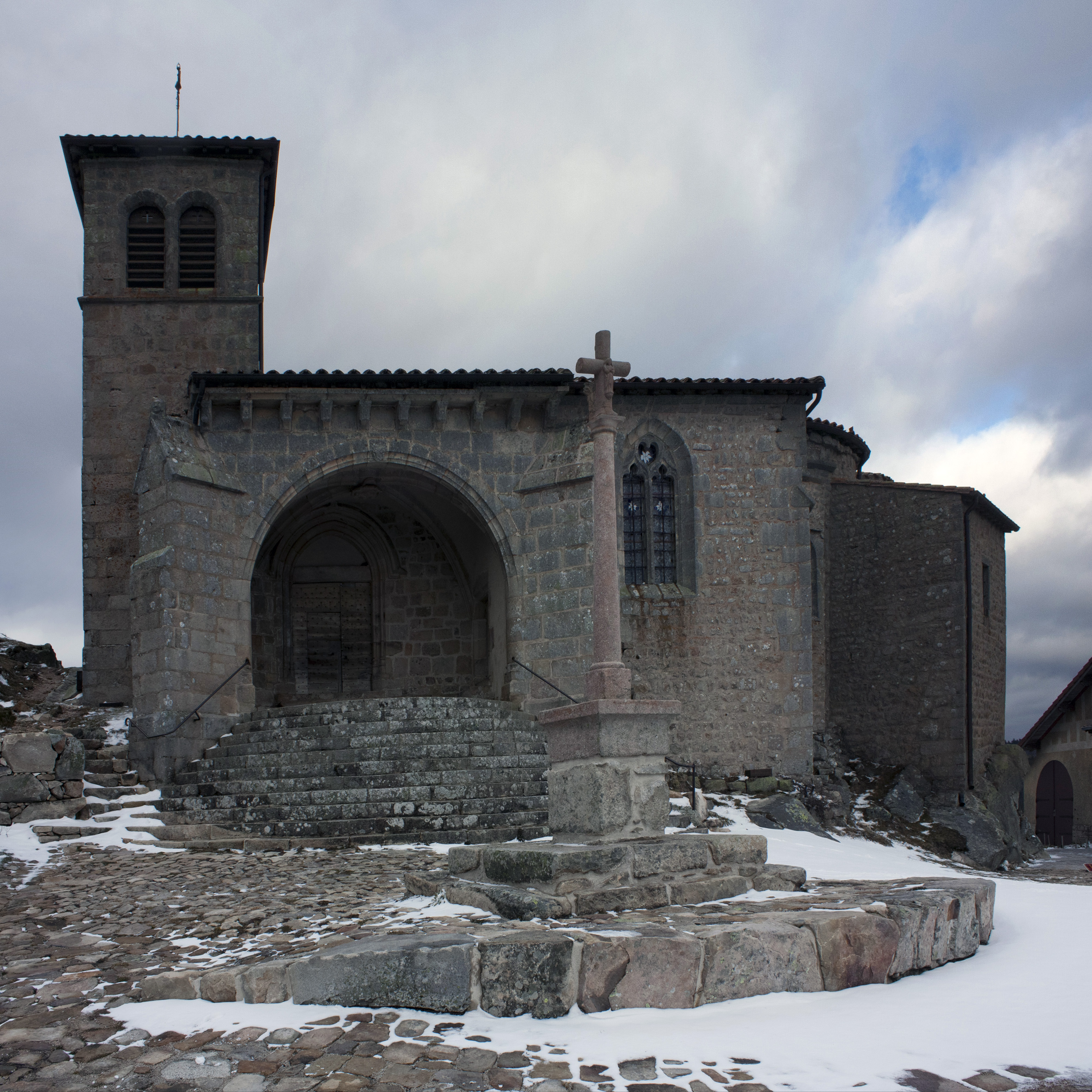 The Montacher church, view from his place, at the edge of the ramparts.